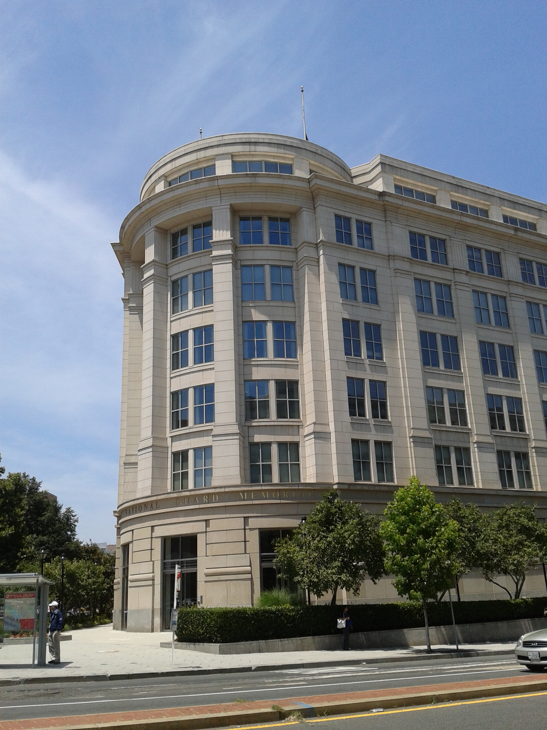 National Guard Memorial Building on North Capitol Street, Washington, D.C.